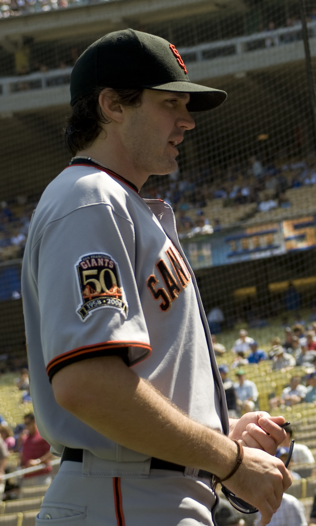 San Francisco Giant pitcher Barry Zito prior to the throwing of the first pitch at Fan Appreciation Day at Dodger Stadium in Los Angeles.